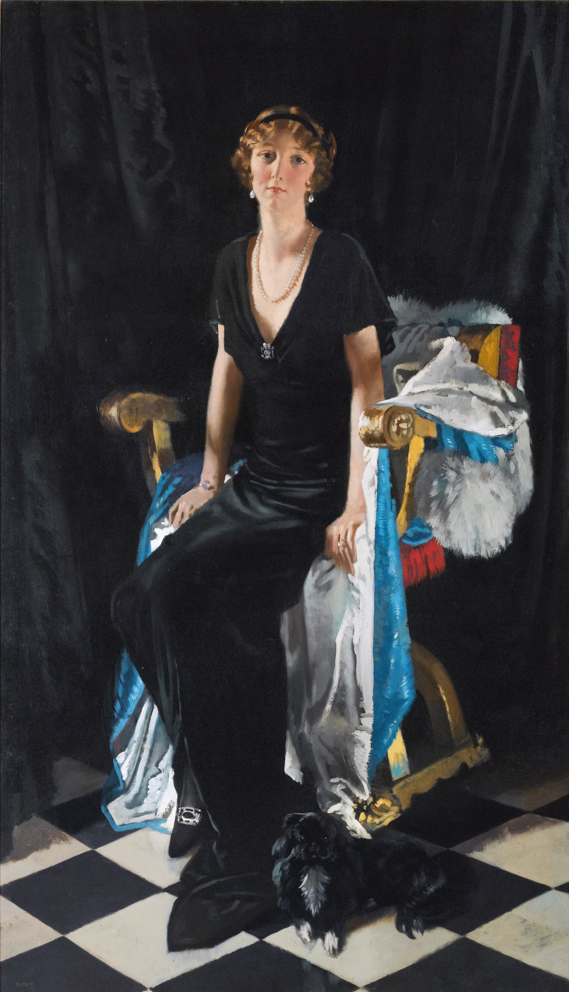 Idina Wallace signed b.l.: ORPEN oil on canvas 197 x 116 cm 1915 (commissioned)